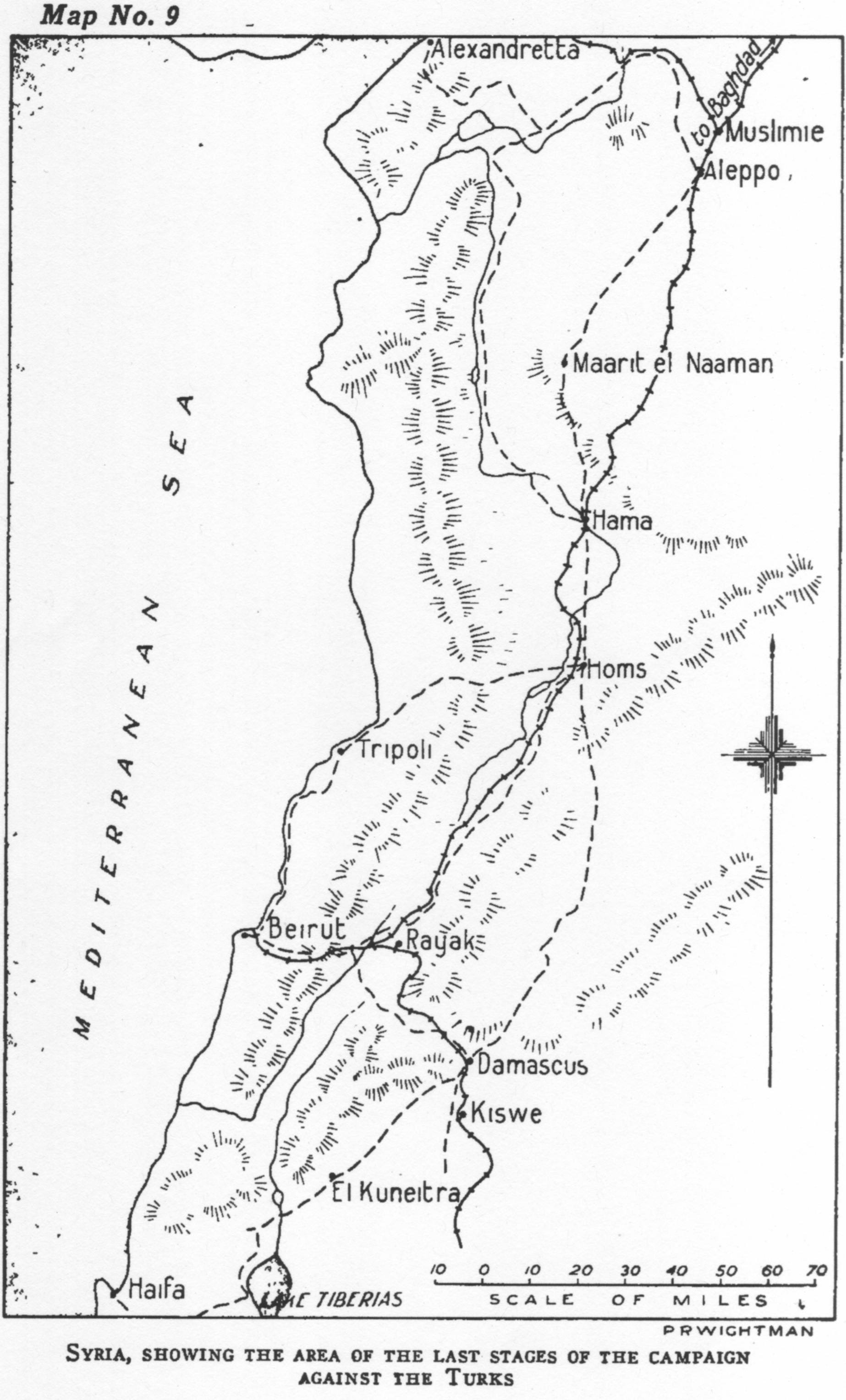 Cutlack Map 9 of Syria with topography